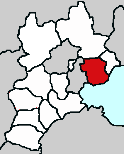 Tangshan city of Hebei province, China. Made by myself